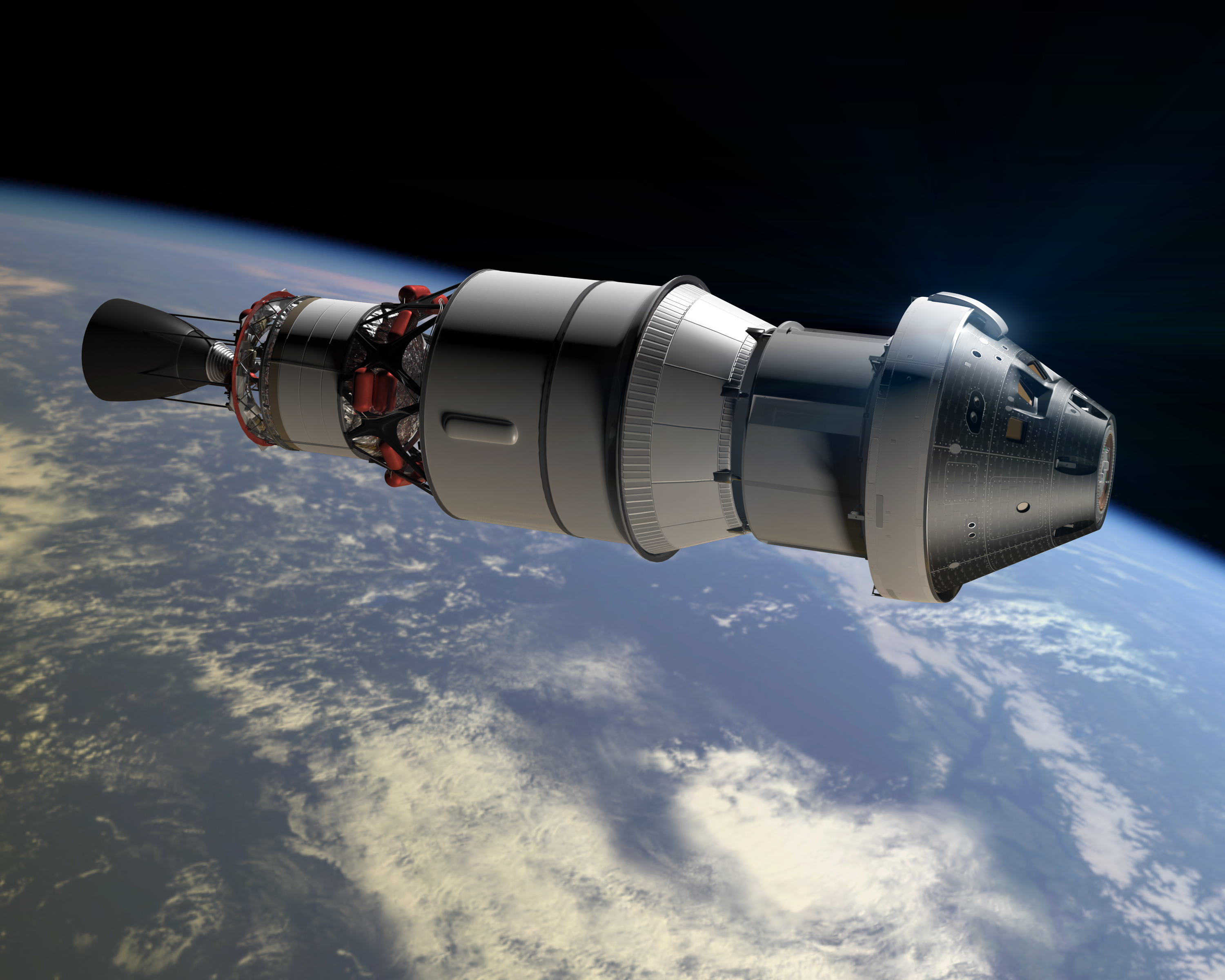 An artists' impression of the first Orion spacecraft in orbit attached to a Delta IV Upper Stage during Exploration Flight Test 1 (EFT-1).